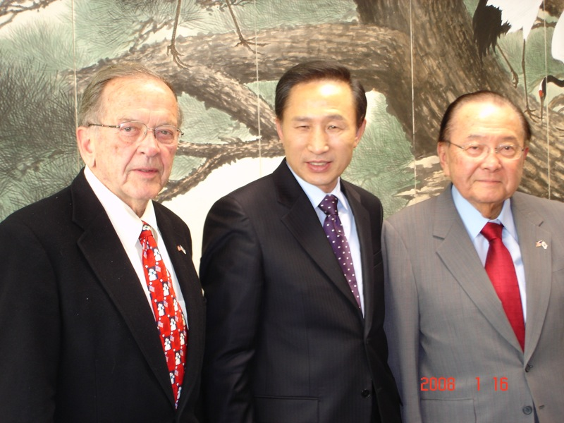 US Senator Ted Stevens, President of South Korea Lee Myung-bak, and US Senator Daniel Inouye (D - Hawaii)